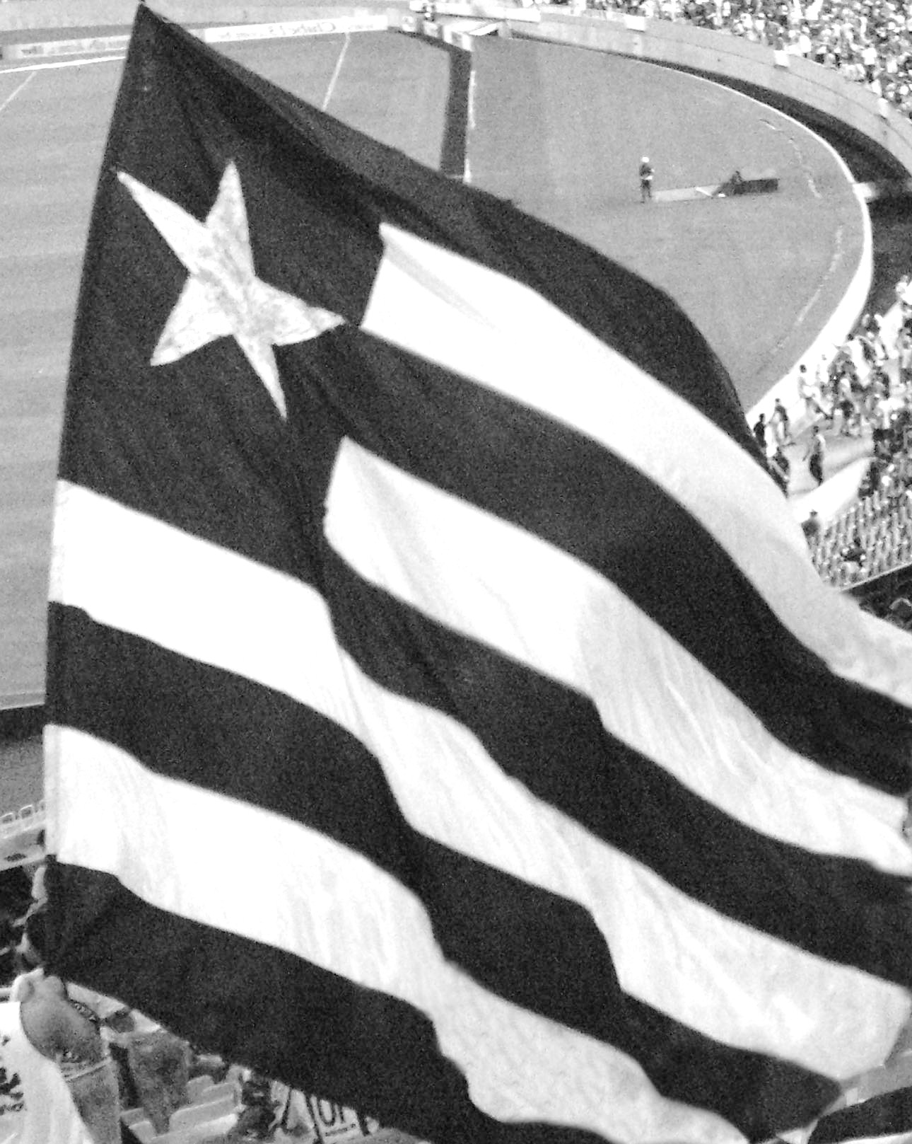 Flag of Botafogo de Futebol e Regatas, at Maracanã stadium.